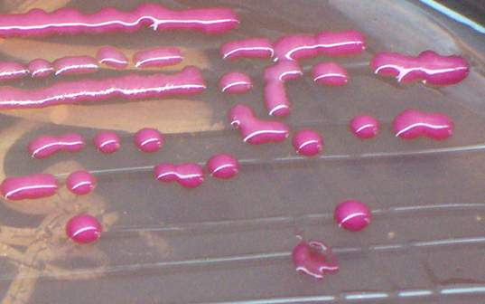 Lactose fermenting mucoid colonies of Klebsiella pneumoniae on MacConkey's agar